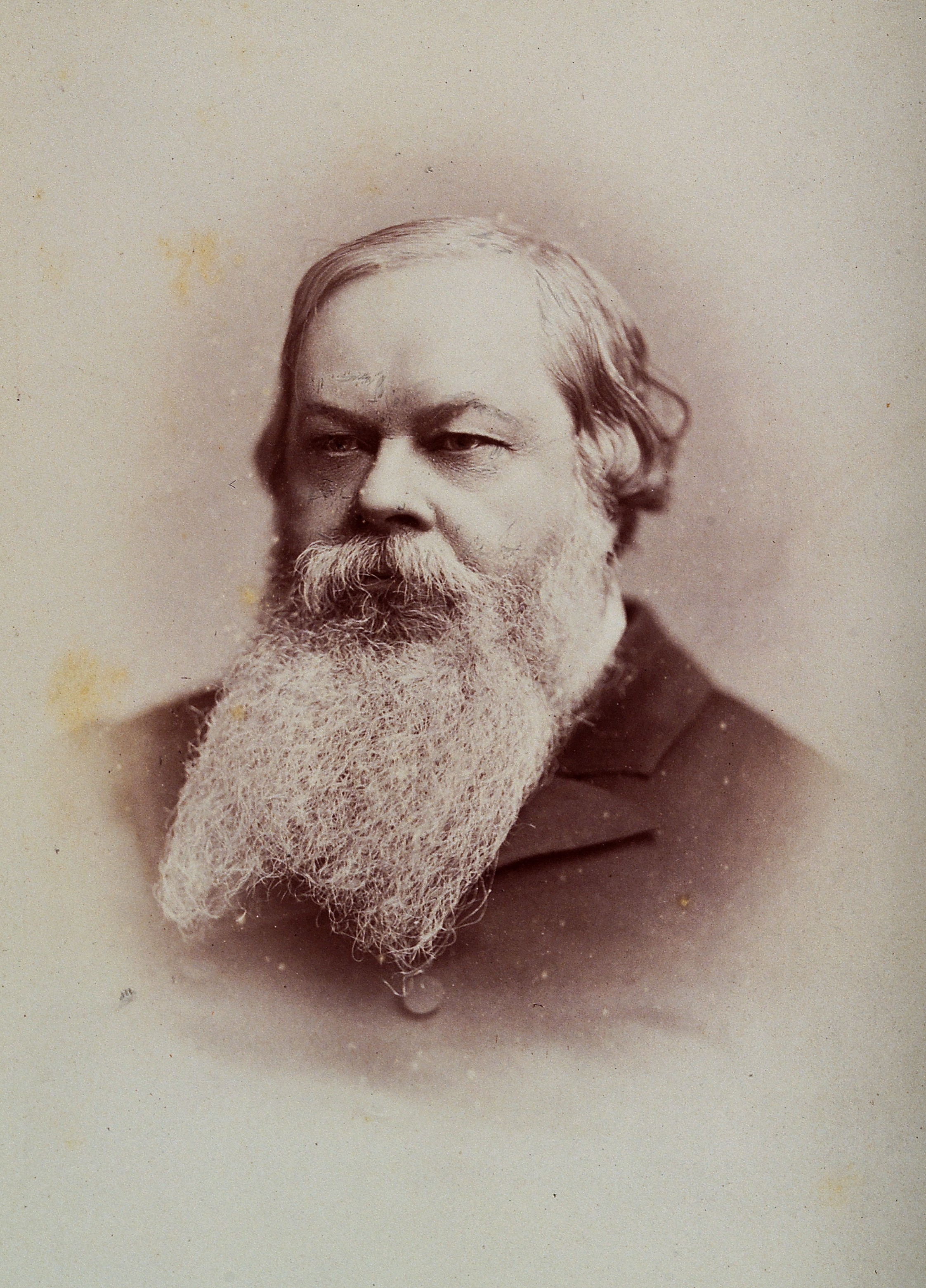 Norman Chevers. Photograph by G. Jerrard, 1881. Iconographic Collections Keywords: portrait photographs